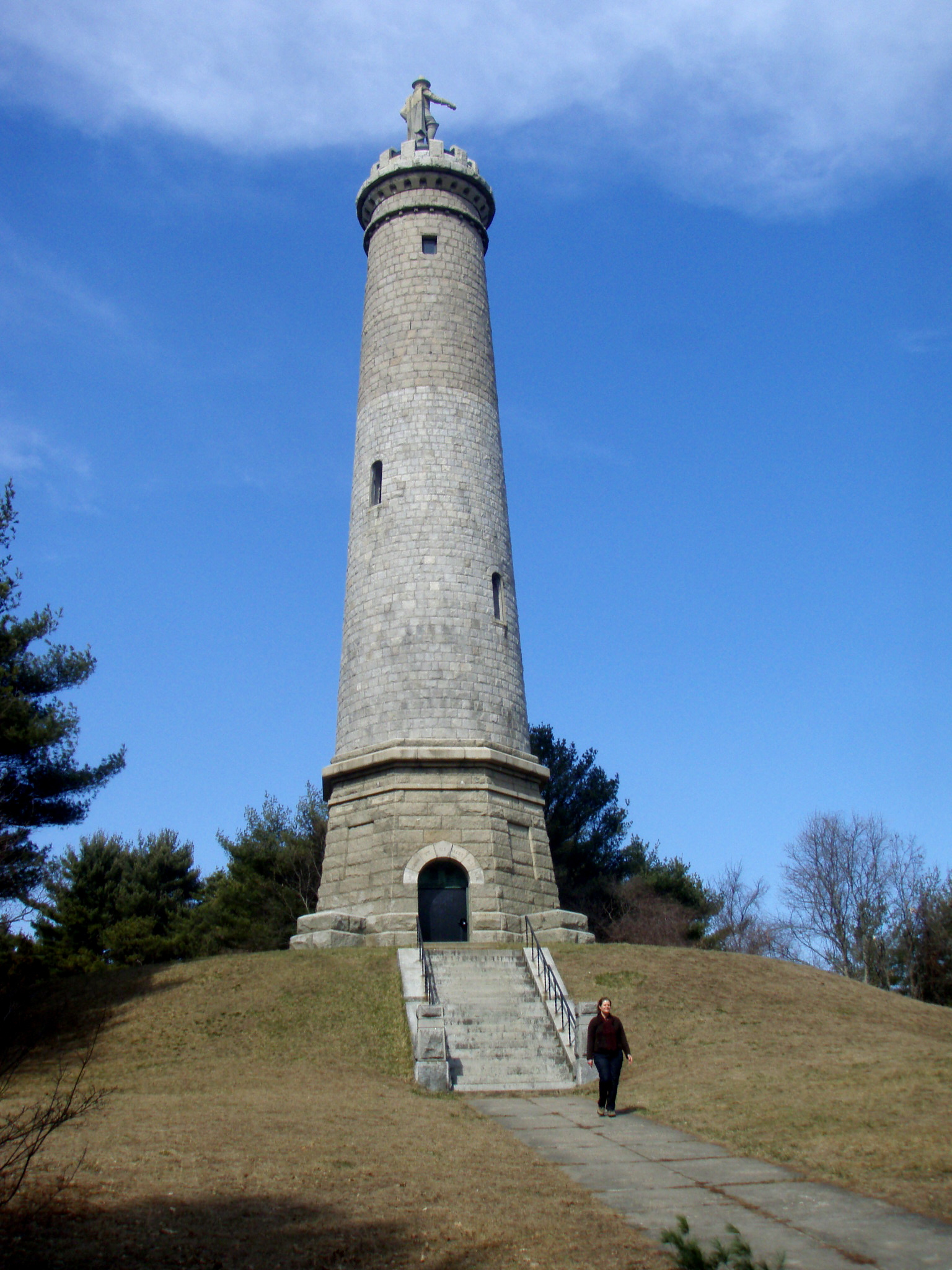 Monument to Myles Standish, Pilgrim and founder of Duxbury, Massachusetts.